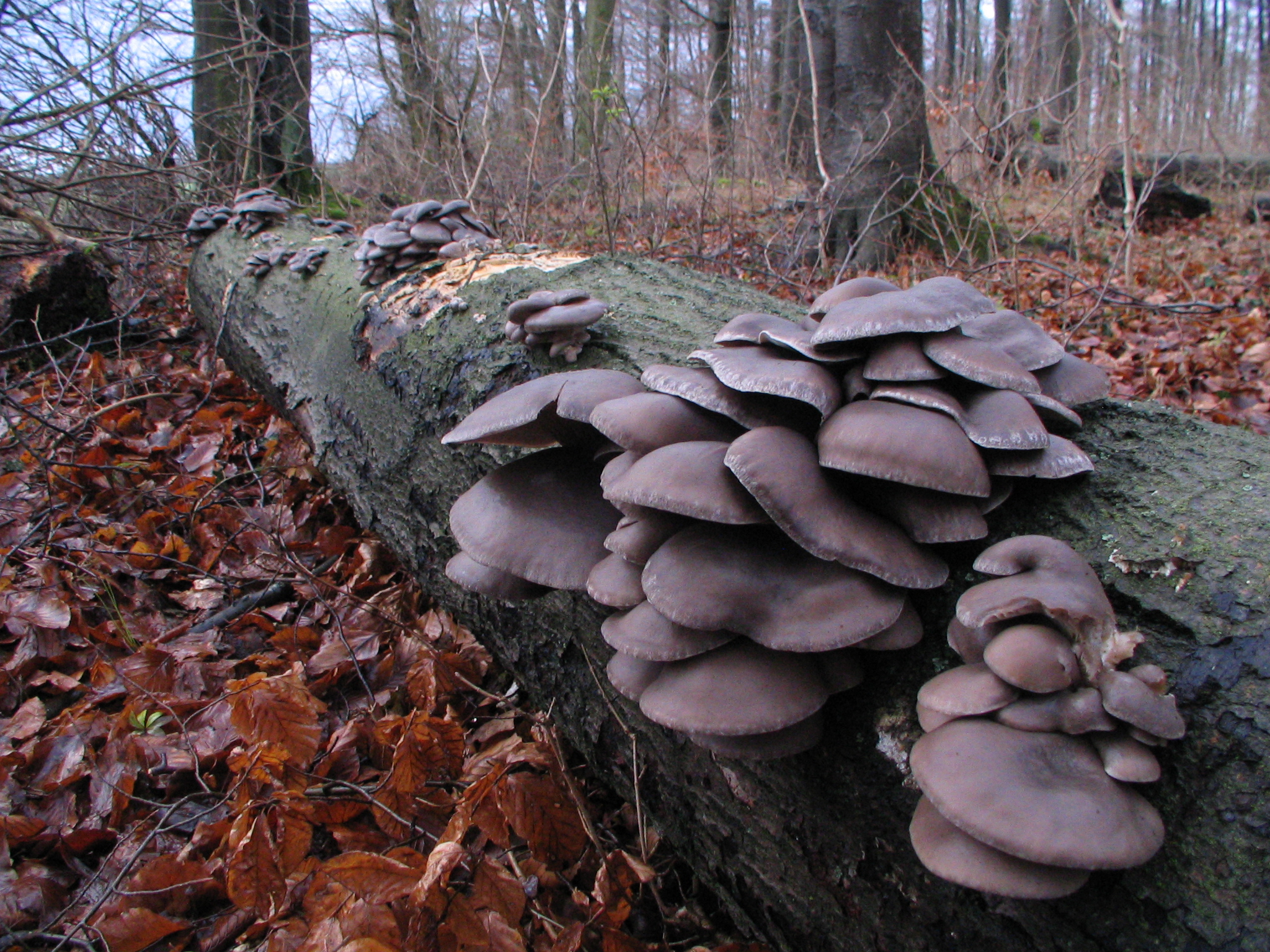 The making of this document was supported by the Community-Budget of Wikimedia Germany.